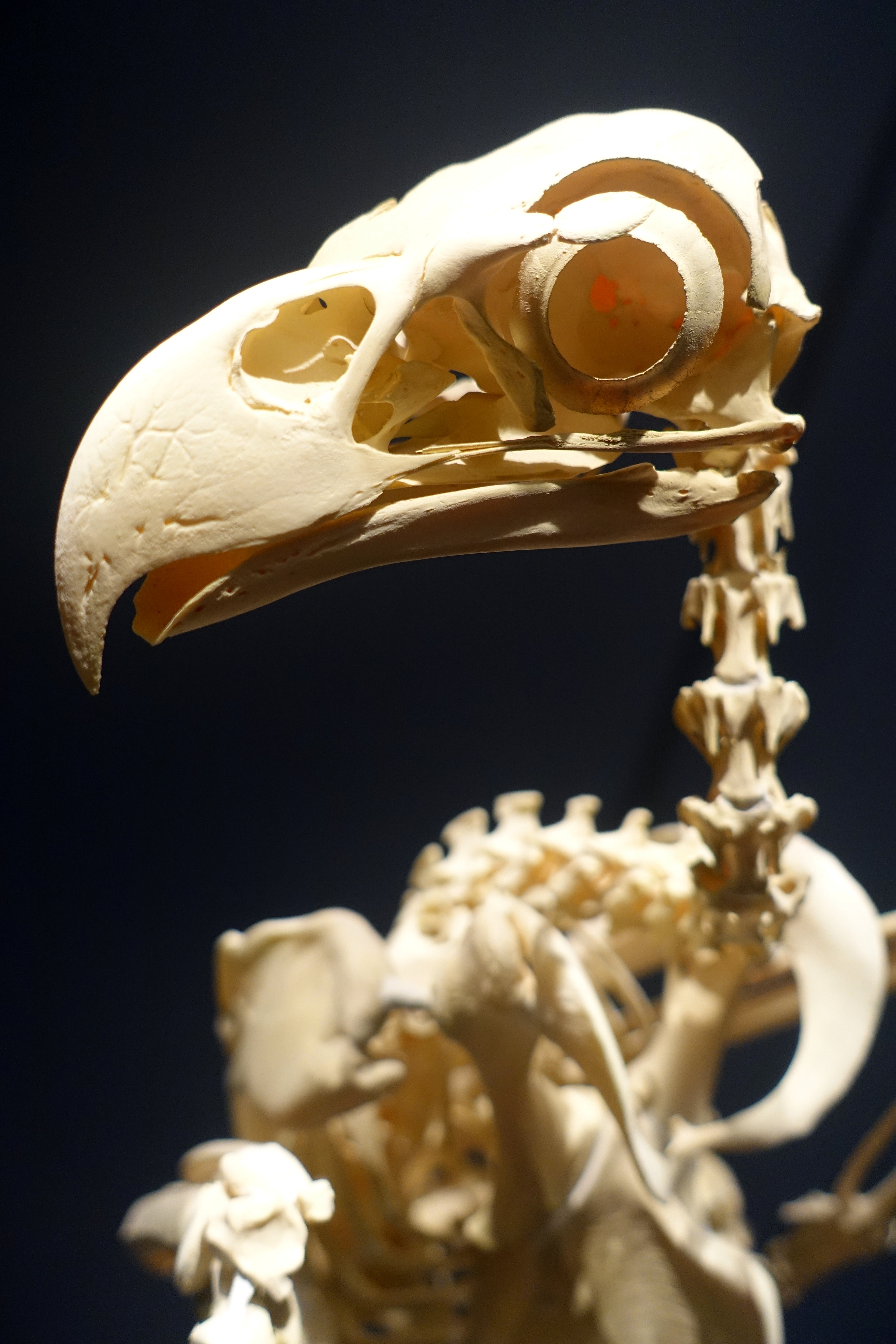 Exhibit in Museum für Naturkunde, Berlin, Germany.